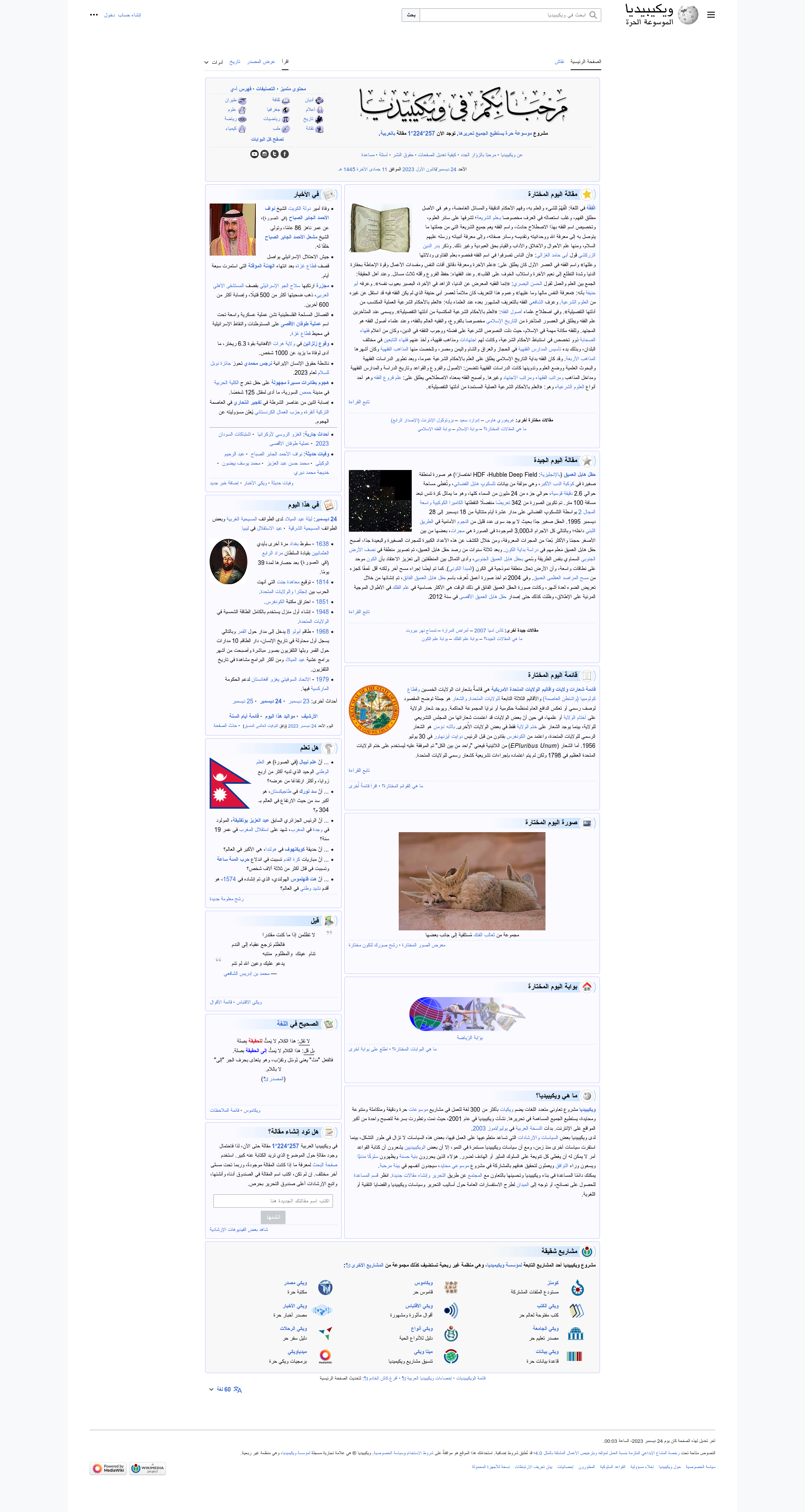 Screenshot of the Arabic Wikipedia on 5 January 2016.